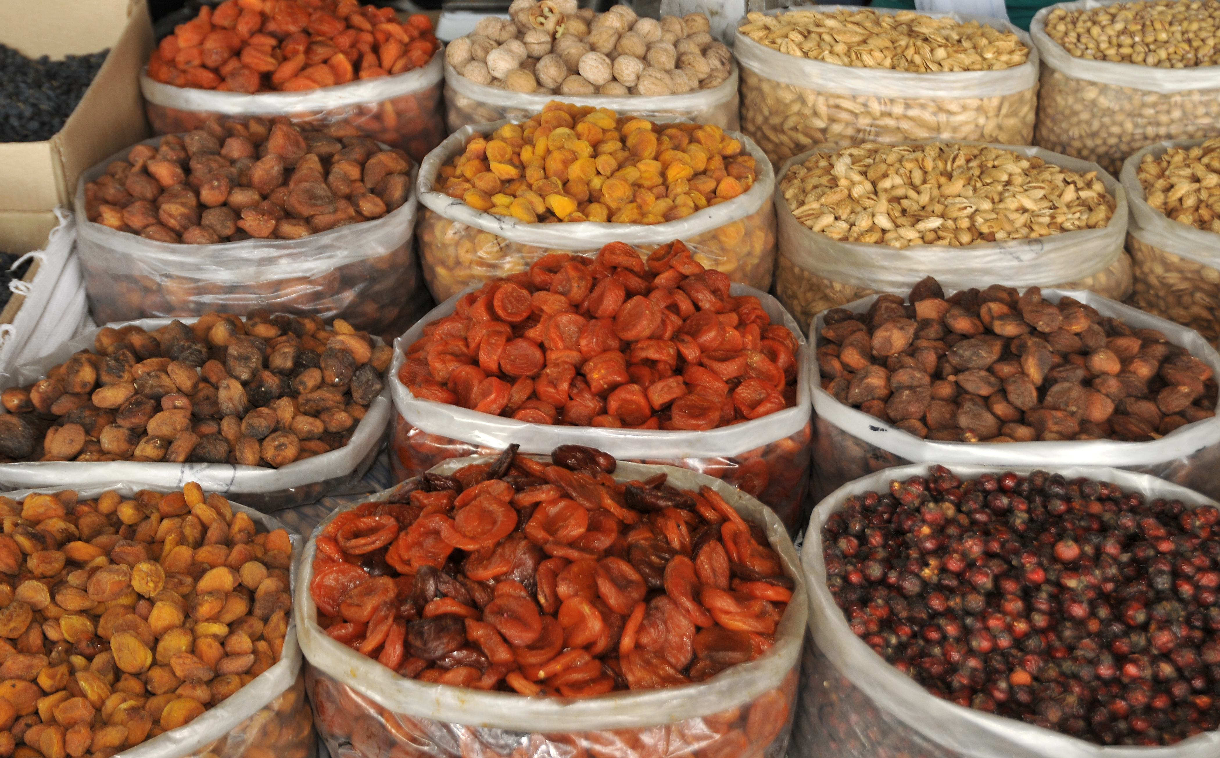 Dried fruits at Chorsu Bazaar. Tashkent, Uzbekistan